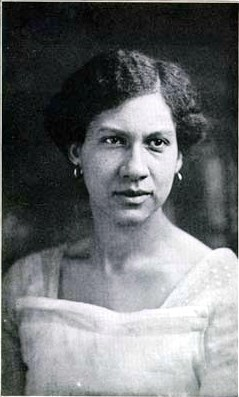 Women of Achievement: Written for The Fireside Schools Under the Auspices of the Woman's American Baptist Home Mission Society